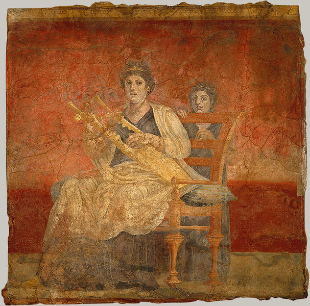 Seated cithara player with girl behind. Wall painting in Room H of the Roman Villa of P. Fannius Synistor at Boscoreale, Italy. The Villa Boscoreale was probably built shortly after the middle of the first century BC. It burned in the eruption of Mount Vesuvius in AD 79 and was rediscovered in 1900. It most likely represents Berenice II of Ptolemaic Egypt wearing a stephane (i.e. royal diadem) on her head. See Pfrommer, Michael; Markus, Elana Towne (2001). Greek Gold from Hellenistic Egypt. Los Angeles: Getty Publications (J. Paul Getty Trust). ISBN 0-89236-633-8, pp. 22–23.